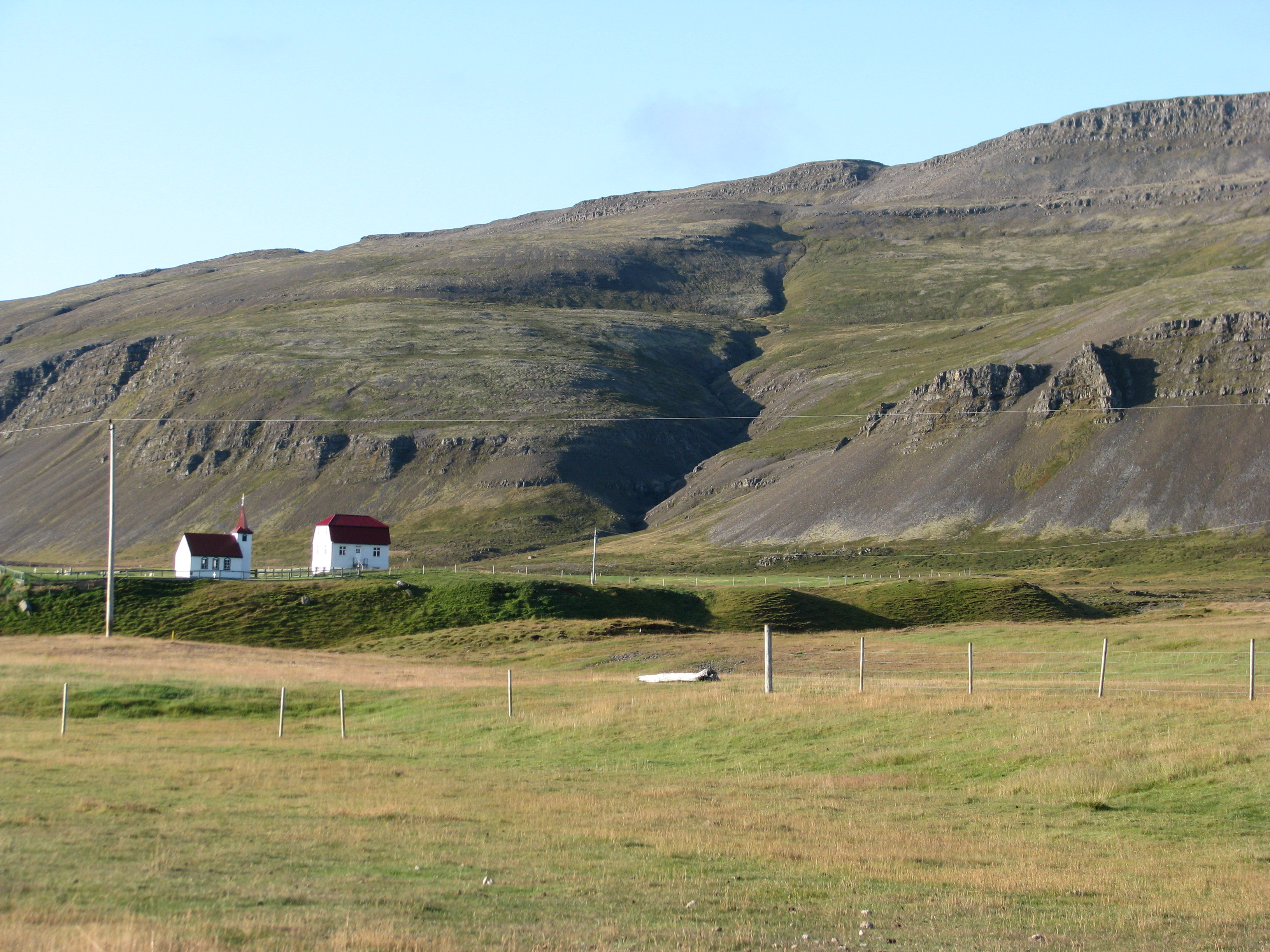 Church of Brjánslaekur, Iceland